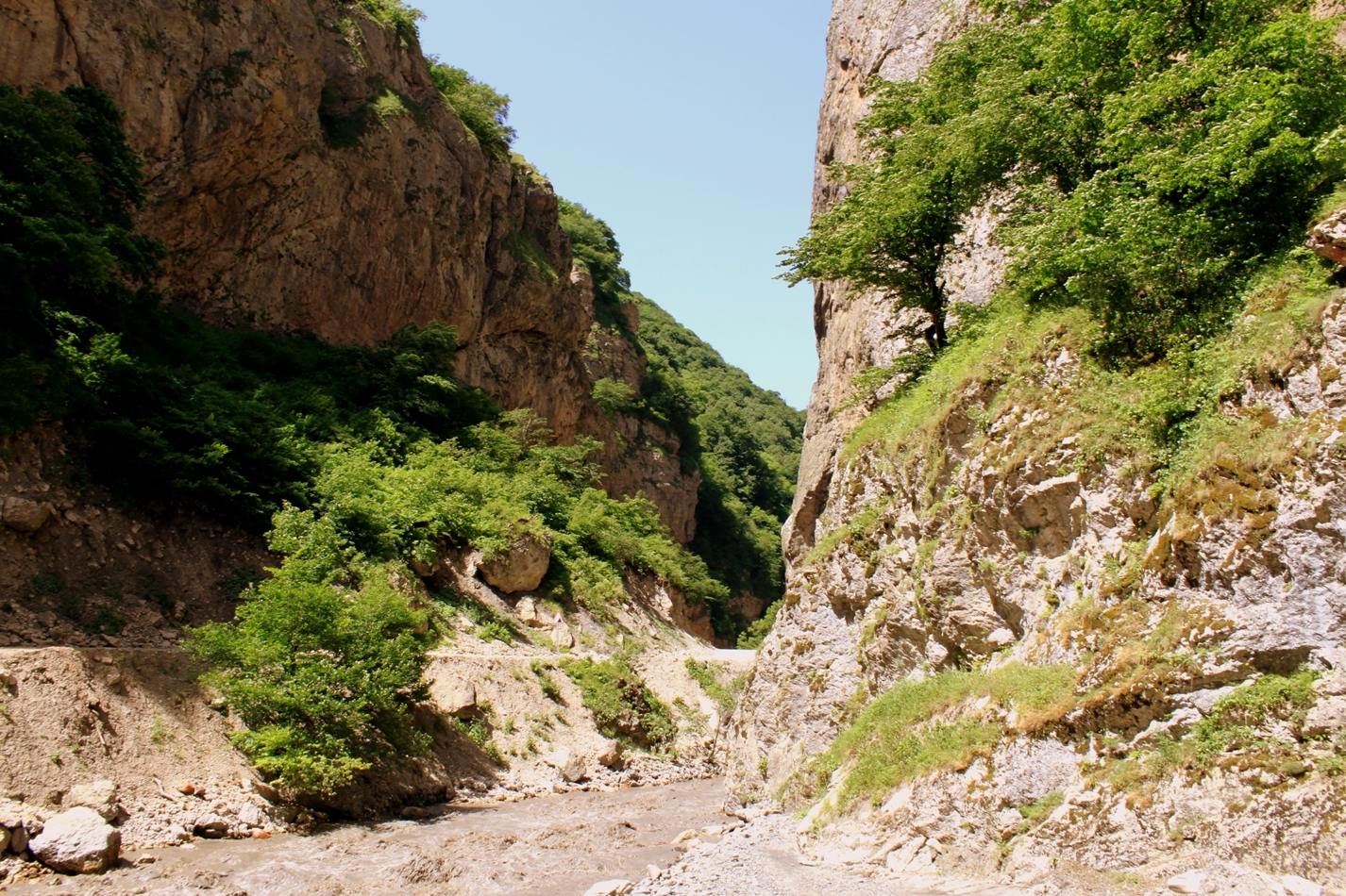 Quba area, Azerbaijan